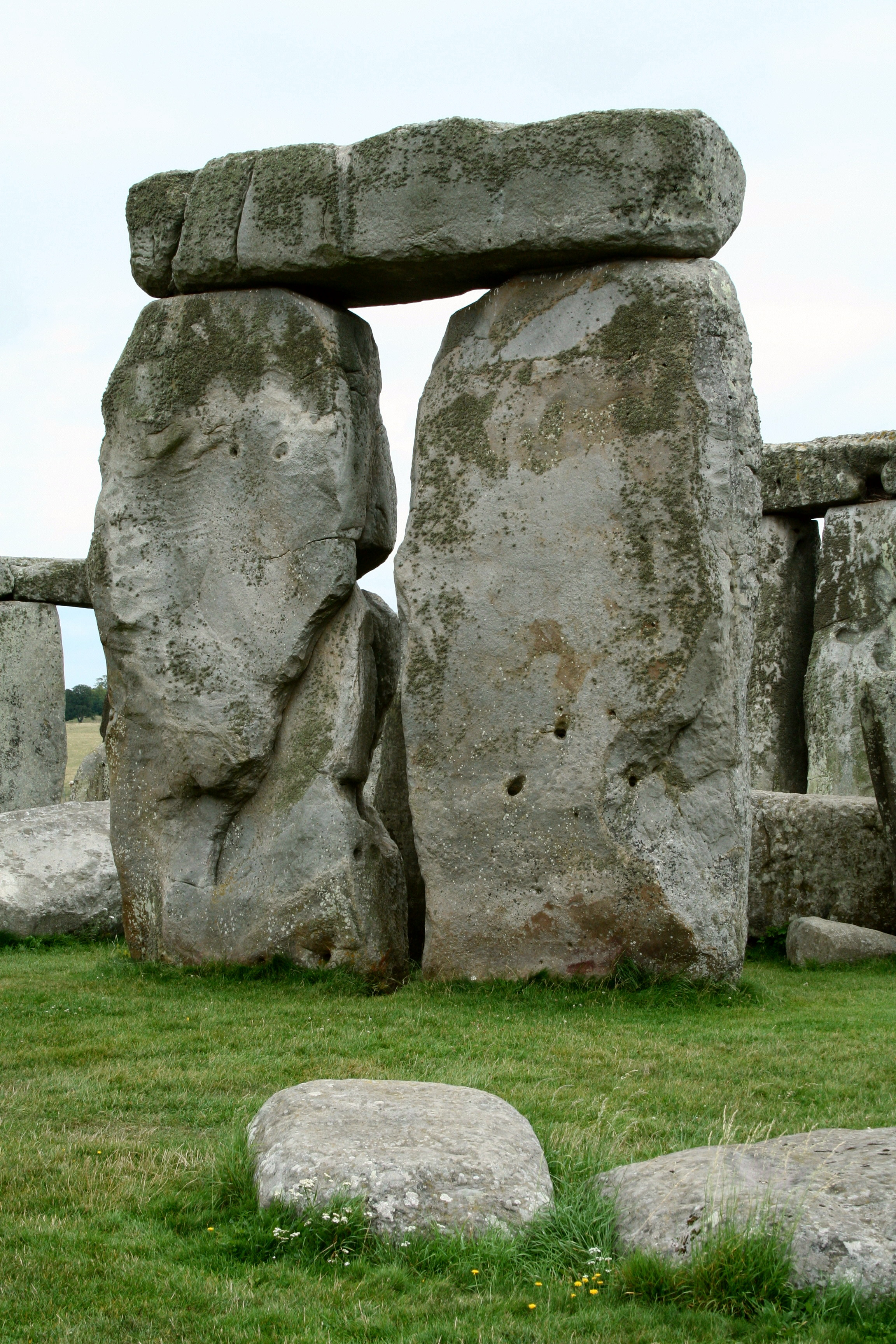 Trilith at Stonehenge